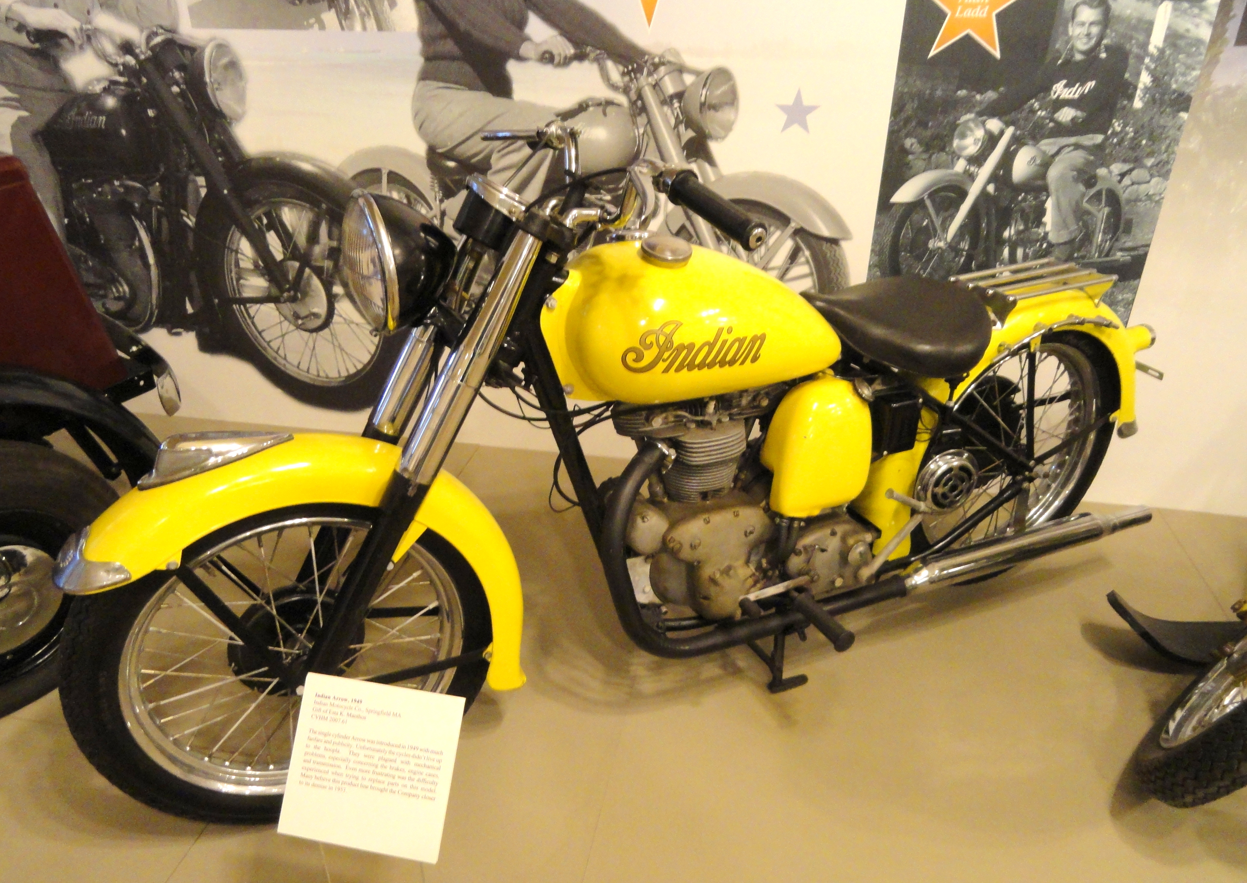 Exhibit in the Lyman & Merrie Wood Museum of Springfield History, Springfield, Massachusetts, USA. This exhibit is old enough so that it is in the public domain.